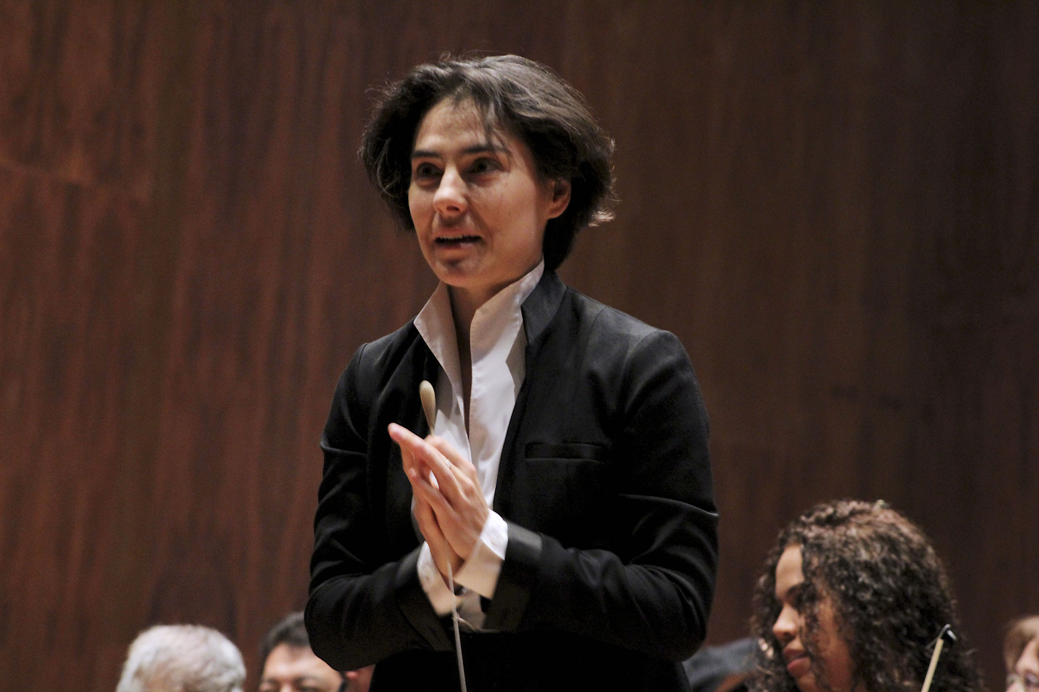 Guest conductor Marzena Diakun at a concert in Mexico City. Sunday, 17 June 2018. Picture by Araceli Gutierrez / Secretaria de Cultura CDMX.